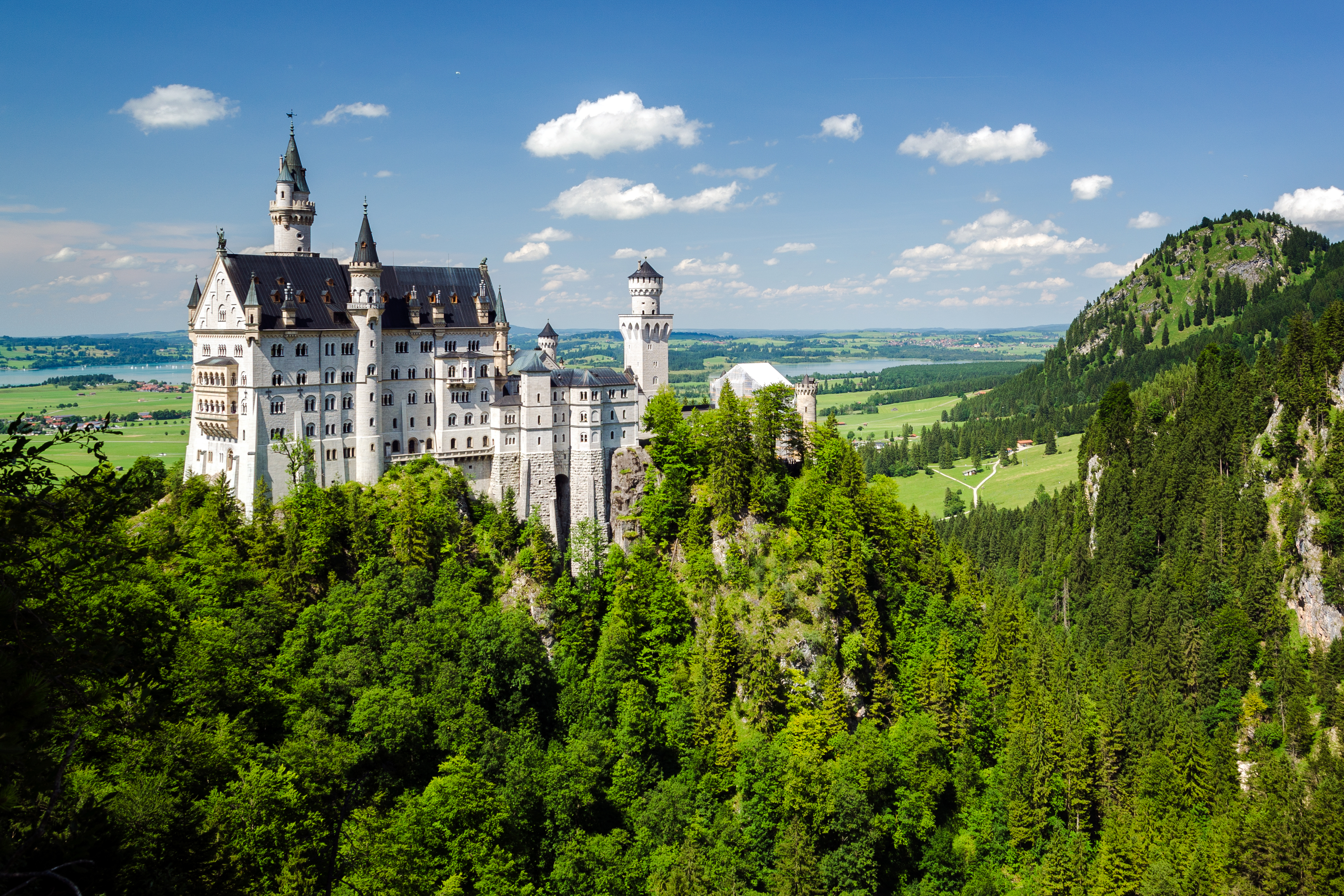 Neuschwanstein Castle - Bavaria, Germany